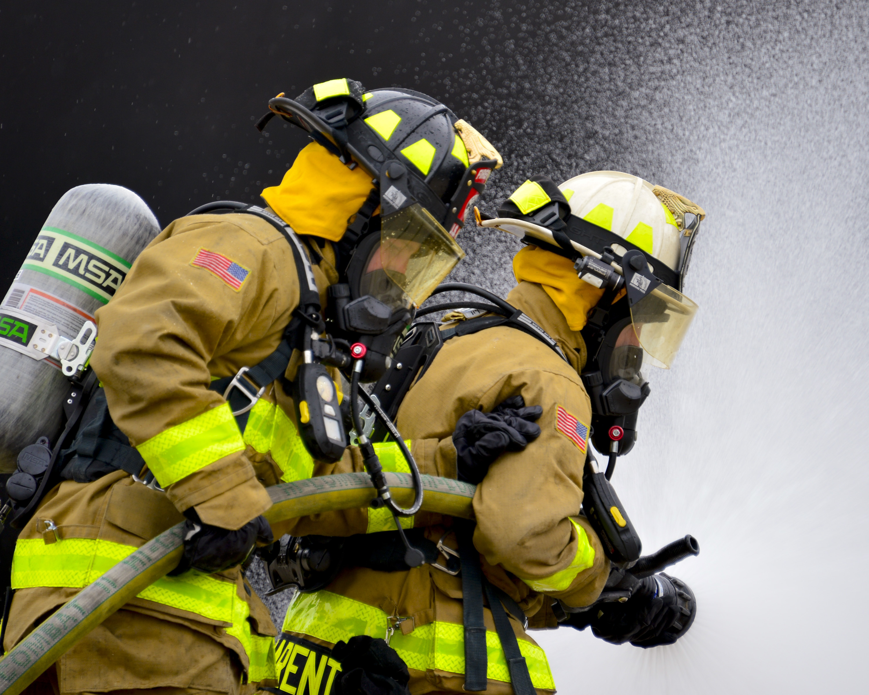 Firefighters from the 181st and the 317th Engineer Detachment, Nebraska Army National Guard, spray water during an aircraft rescue and firefighting burn as they prepare for the annual PATRIOT Exercise at Volk Field Combat Readiness Training Center, Wis., July 16, 2015. PATRIOT is a Domestic Operations disaster-response training exercise conducted by National Guard units working with federal, state and local emergency management agencies and first responders. (U.S. Air National Guard photo by Tech. Sgt. Amy M. Lovgren/Released)